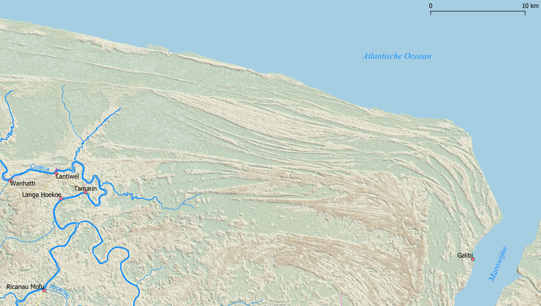 Chenier plain in Northeast Suriname This map may be incomplete, and may contain errors. Don't rely solely on it for navigation.